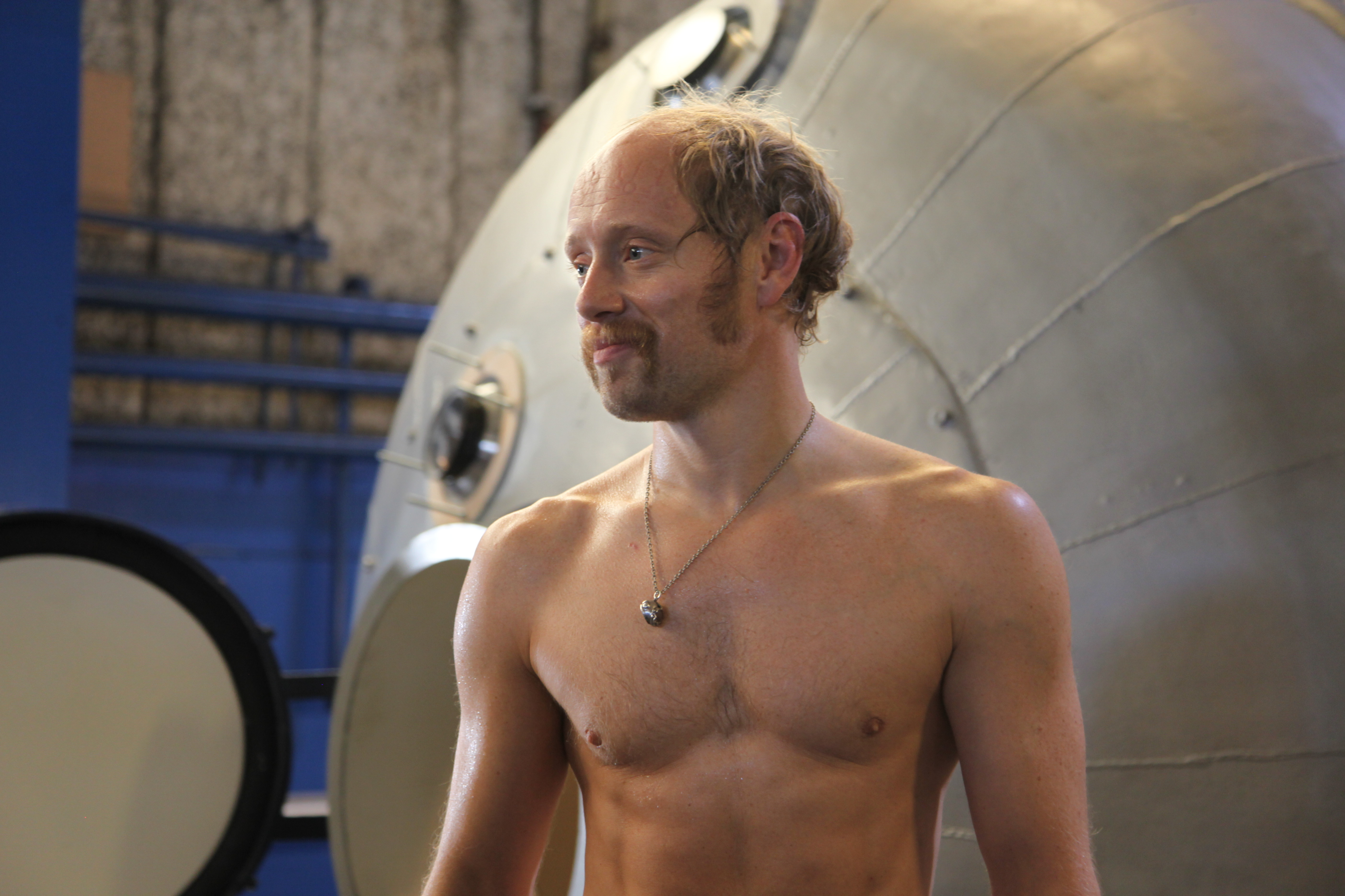 Actor Aksel Hennie during production of the thriller film Pioneer.